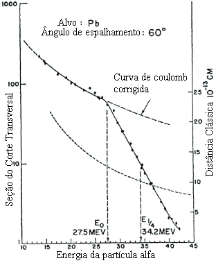 Se�ção de choque para o espalhamento de partí��culas alfa pelo chumbo a 60°, no sistema do laborat�orio. A curva tracejada e a escala �a direita do gr�a�co se referem �a distância de m�áxima aproxima�ção para a trajet�oria cl�assica em fun�ção da energia da part��cula alfa.